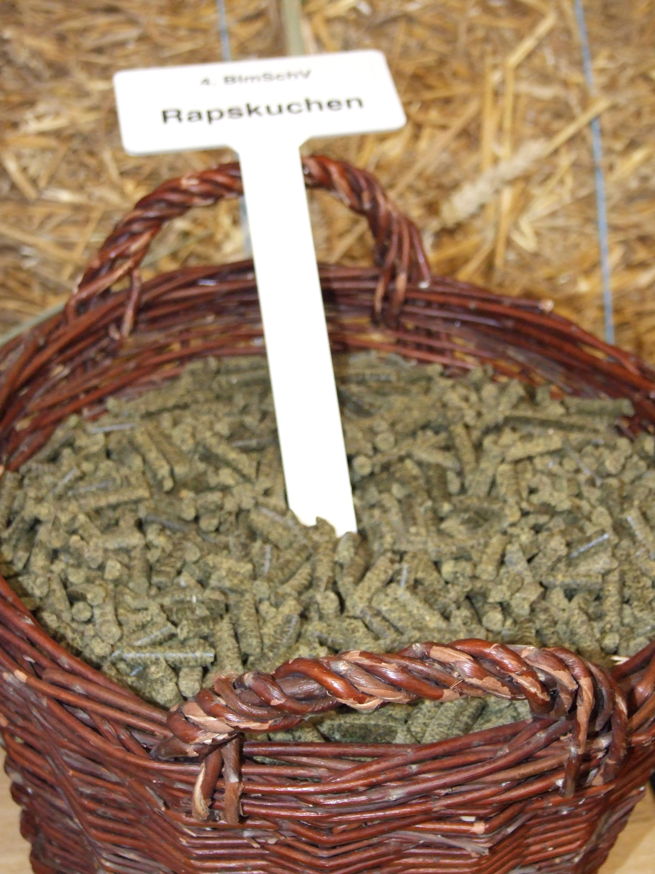 rape cake, Rapsexpeller, rape expeller